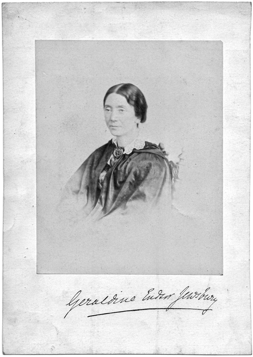 Geraldine Endsor Jewsbury (22 August 1812 – 23 September 1880) was an English novelist, woman of letters, and reviewer for English publishers. est date of pic as 1880